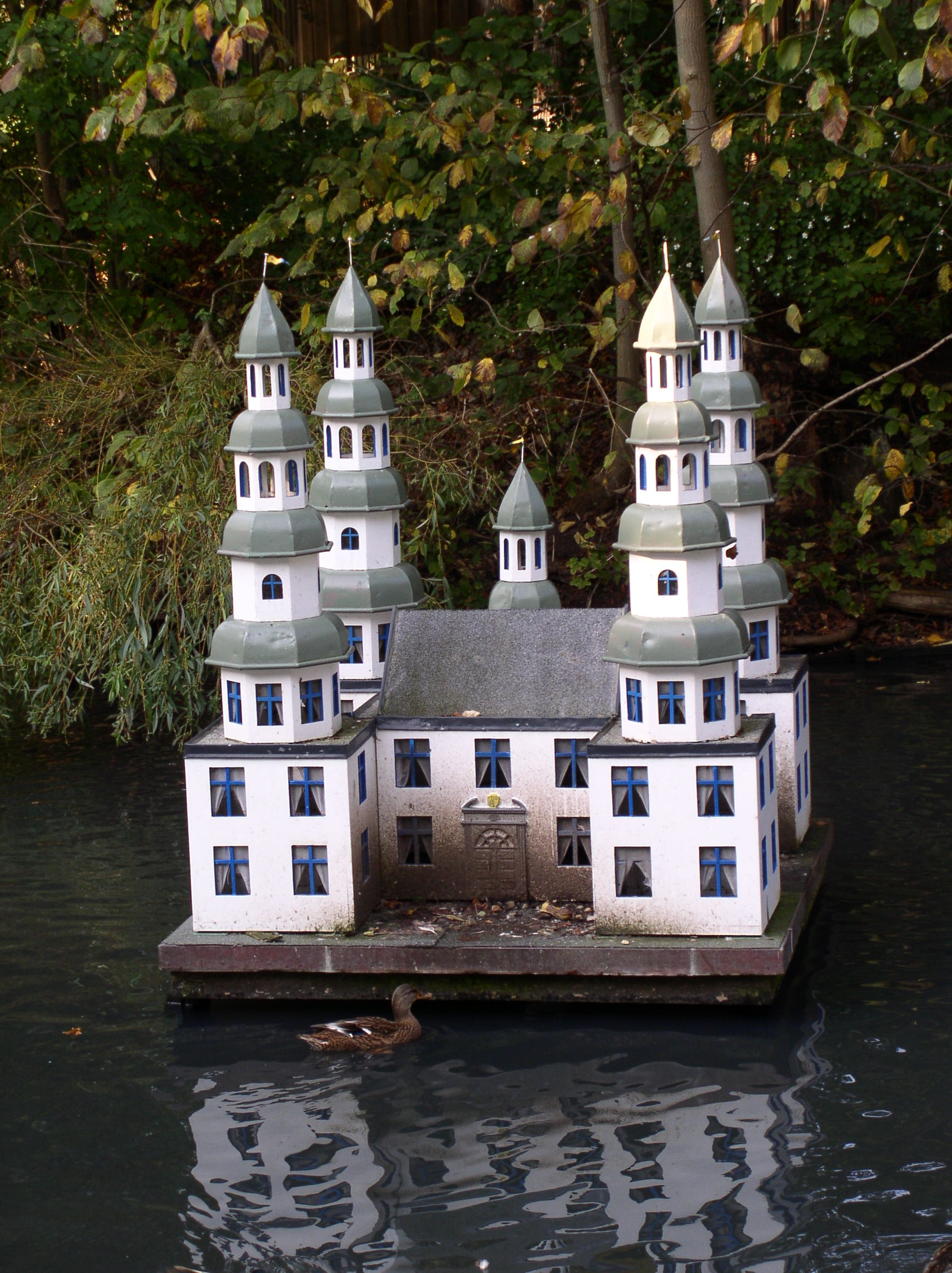 Remake of the Castle in Tönning, Germany.